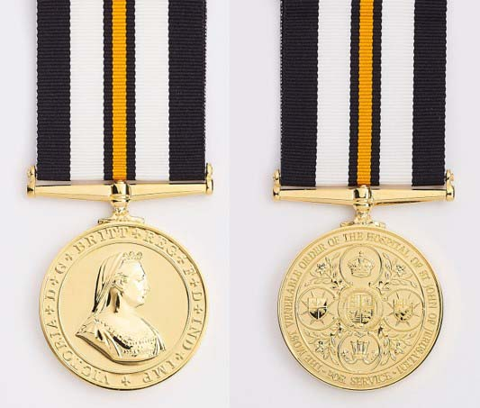 The new ULS Service Medal established in 2020.